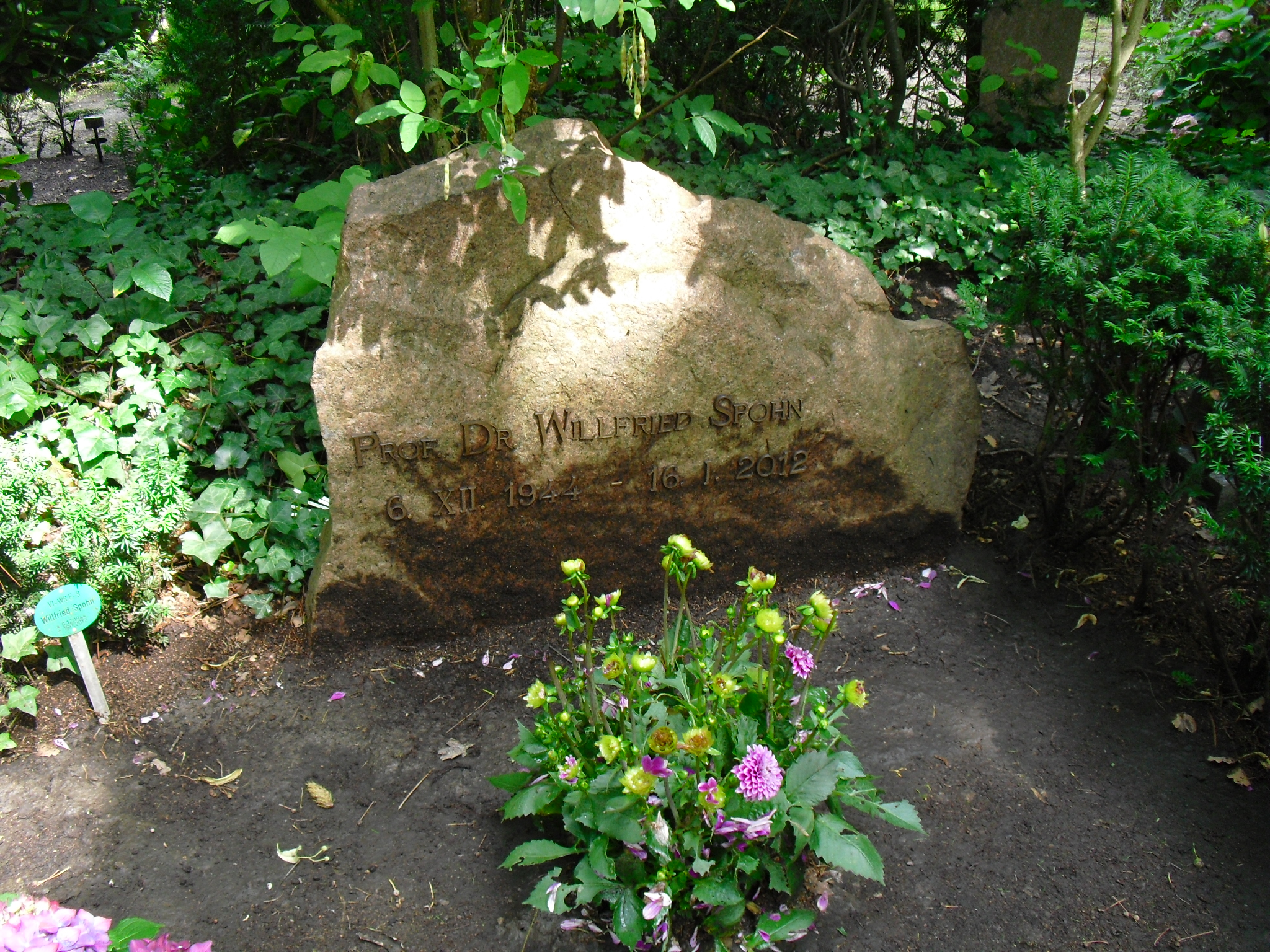 Grave of German sociologist Willfried Spohn in Berlin, Friedhof Lichterfelde.